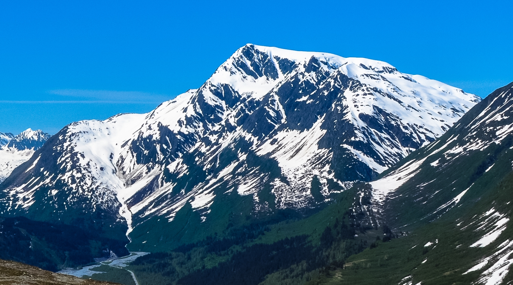 Hogback Ridge seen from Thompson Pass